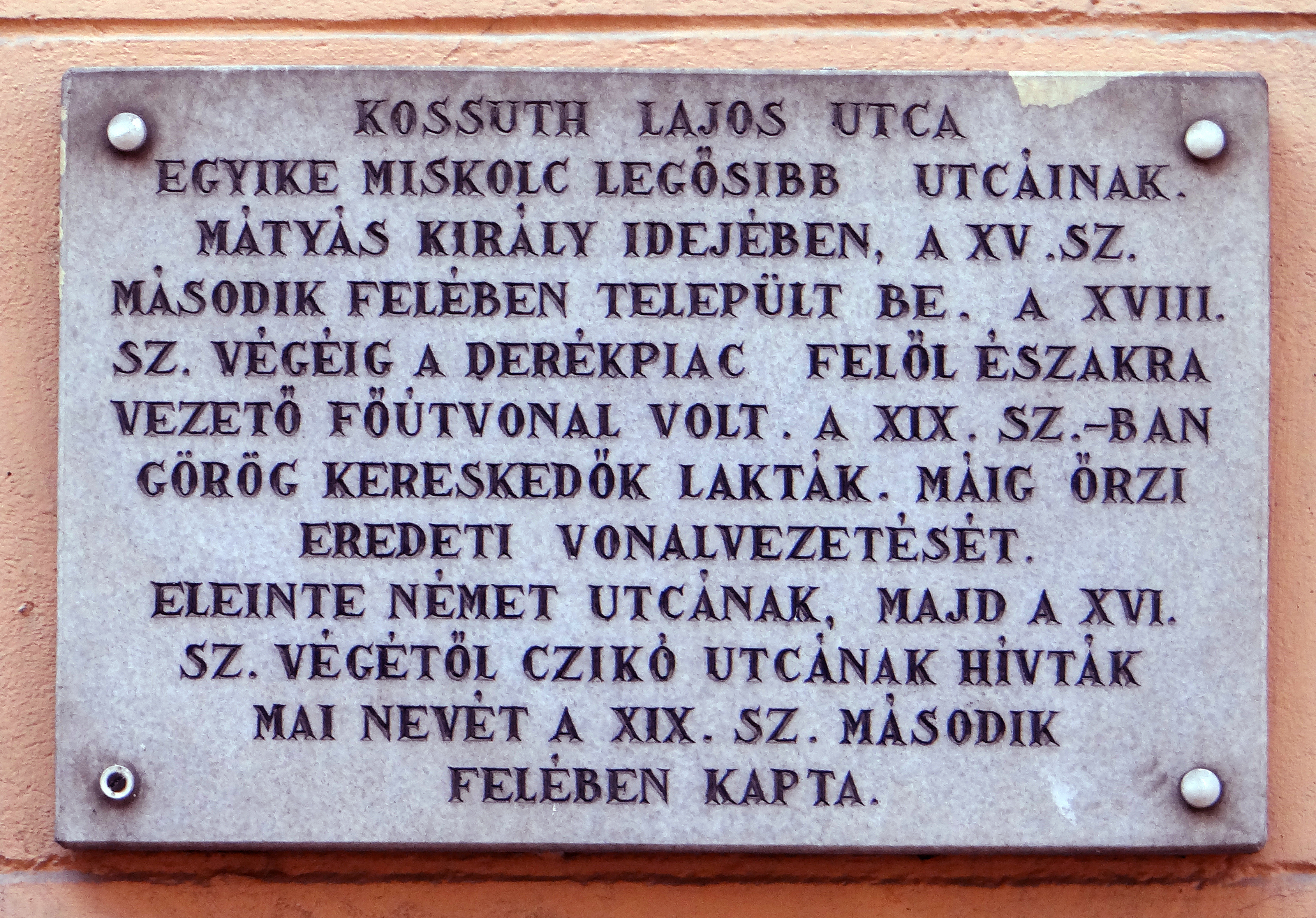 Plaque in 3 Kossuth Street (Pfliegler House), Miskolc